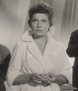 Valerie French in The 27th Day - trailer (cropped screenshot)